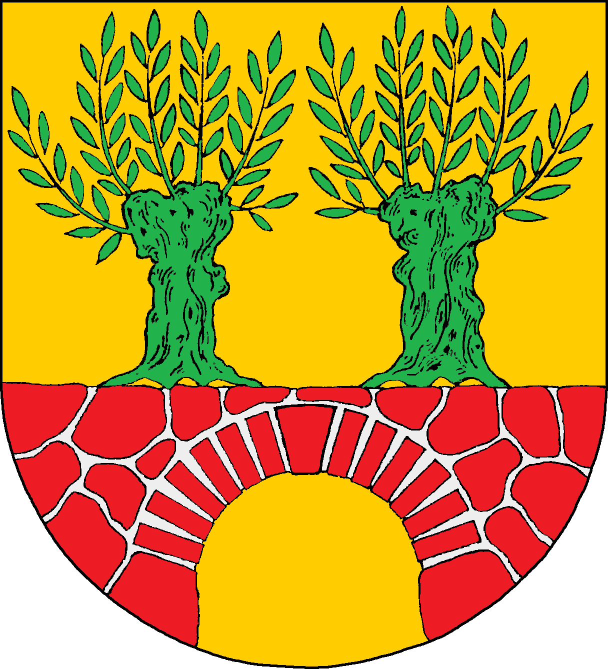 Coat of arms of the municipality Mechow in Schleswig-Holstein, Germany.